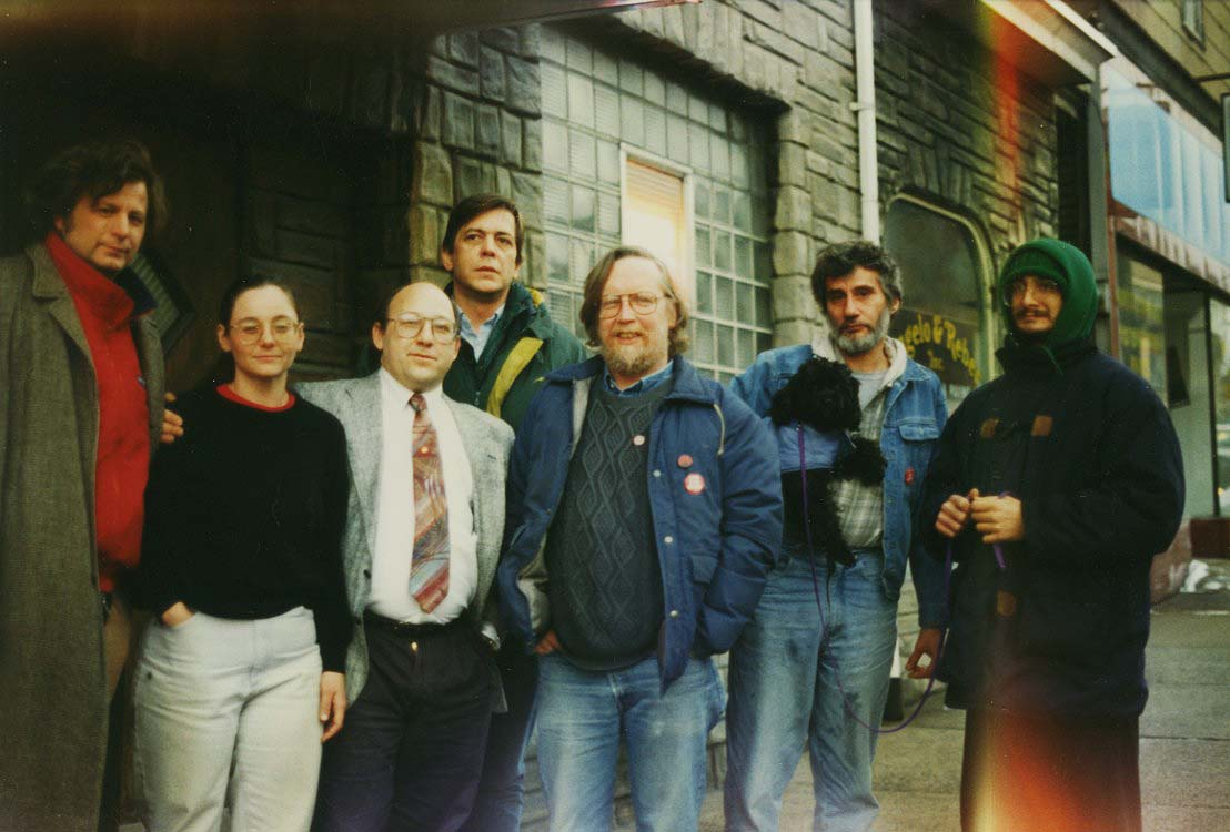 IWW funeral